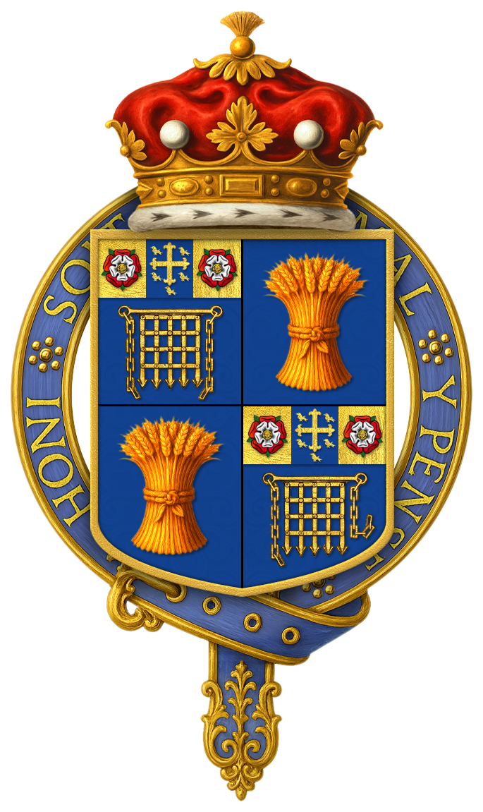 Garter encircled arms of Hugh Grosvenor, 2nd Marquess of Westminster, KG, as displayed on his Order of the Garter stall plate in St. George's Chapel.